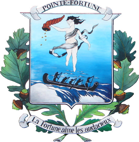 Coat-of-Arms of Pointe-Fortune, Quebec, Canada (based on welcome sign)